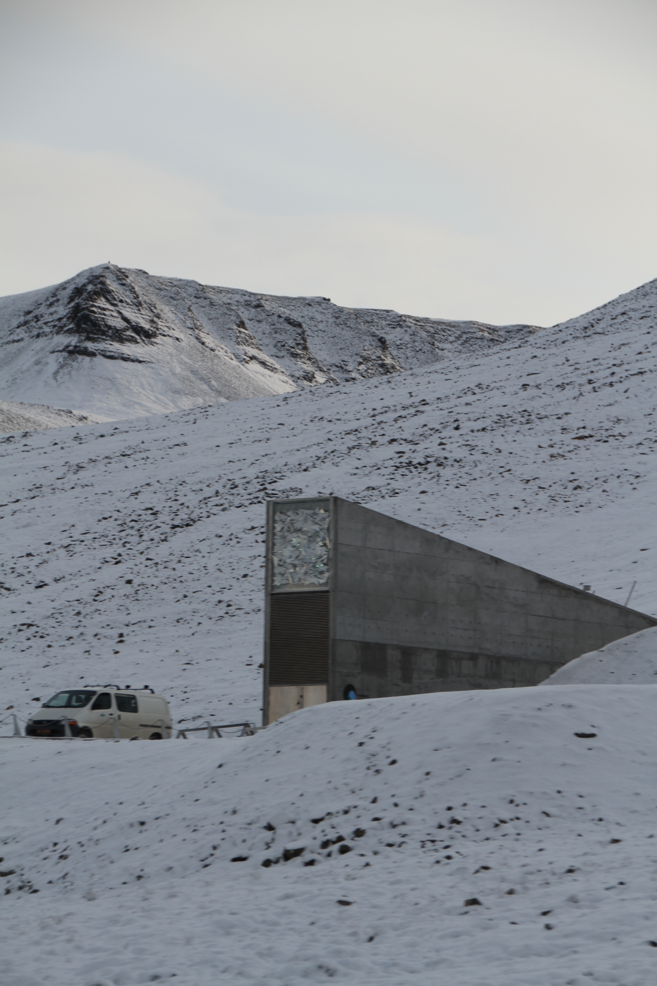 The svalbard global seed vault, established in a part of mine No 3, as a repository of the global plant diversity.